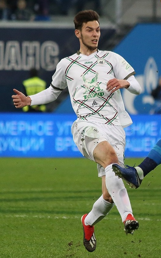 Artur Sagitov with FC Rubin Kazan in a game against FC Zenit Saint Petersburg.